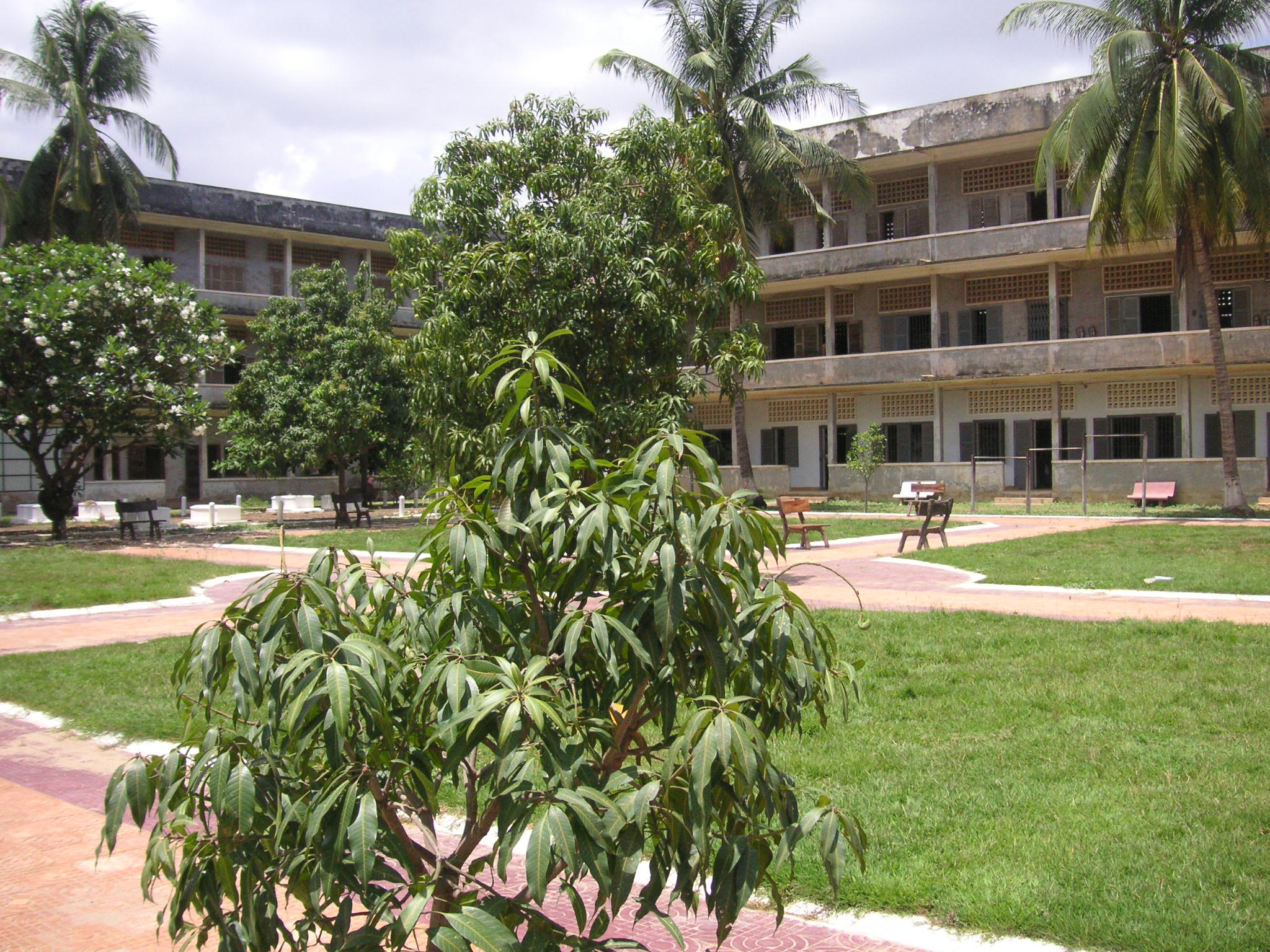 Courtyard of the Tuol Sleng Museum, in view of the south side of the complex.